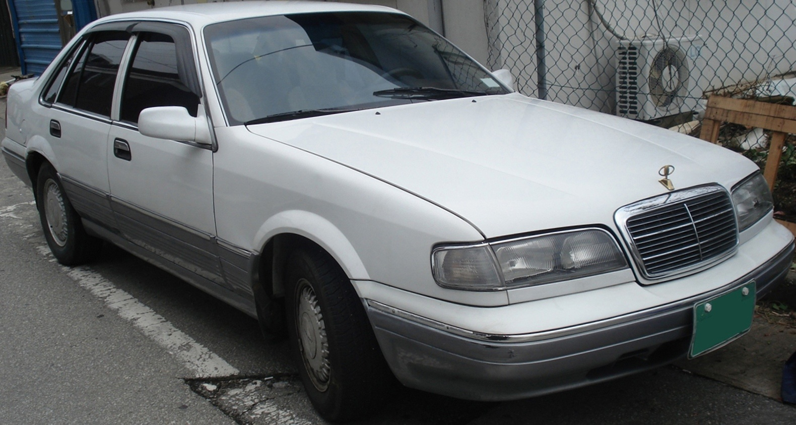 Daewoo Brougham